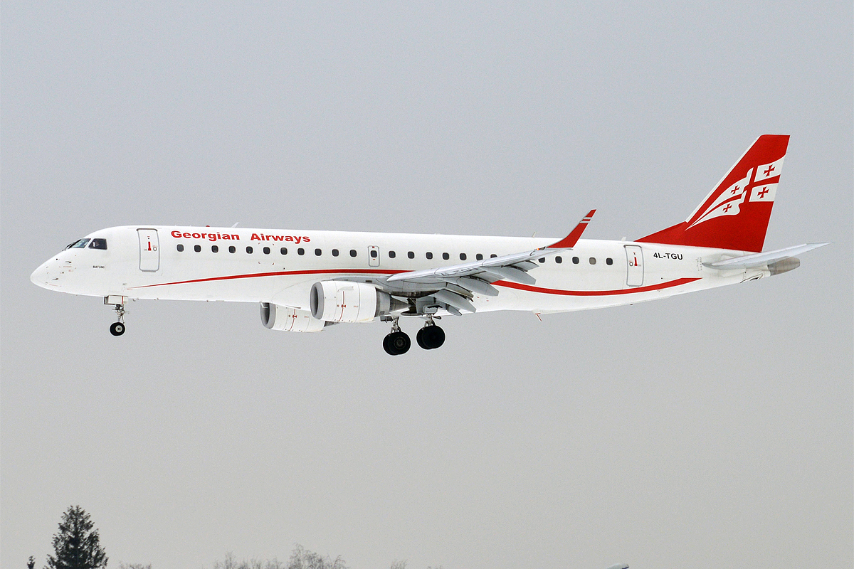 Georgian Airways, 4L-TGU, Embraer ERJ-190AR